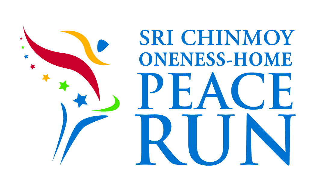 Logo from Peace Run.